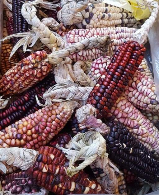 Corn biodiversity